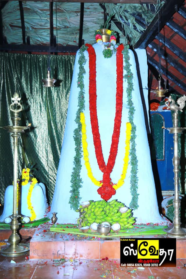 Maramangalam Sudalai Eswarar